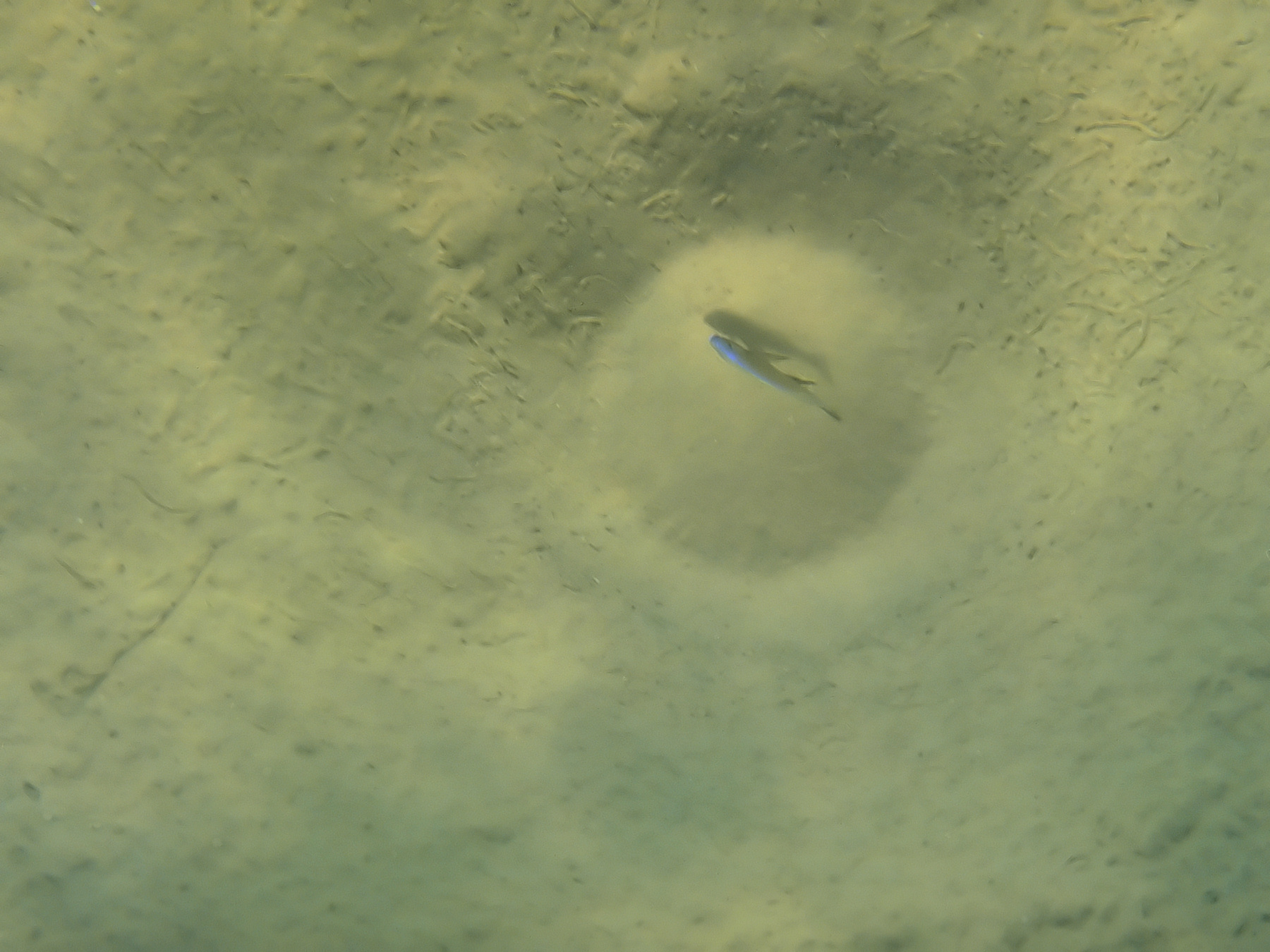 Maternal mouthbrooder cichlid guarding a craterlike sand nest at Cape Maclear, Malawi.